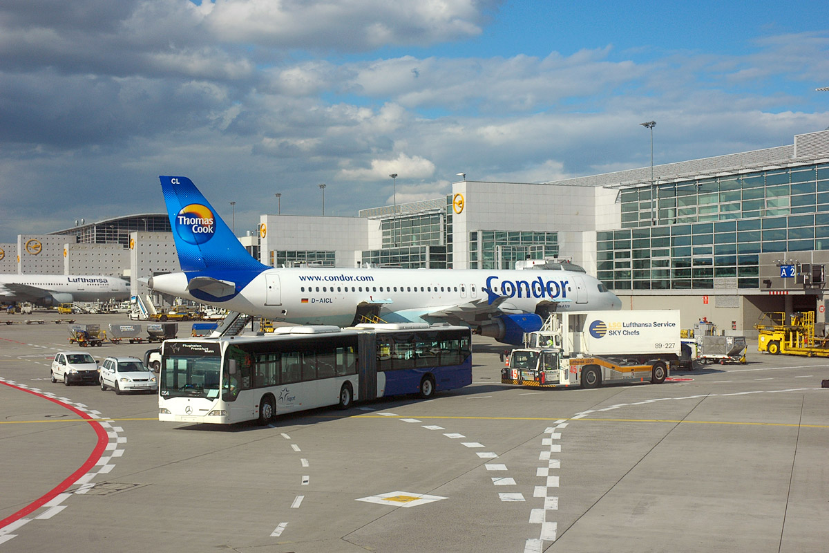 Condor Airbus A320 D-AICL at Frankfurt Airport